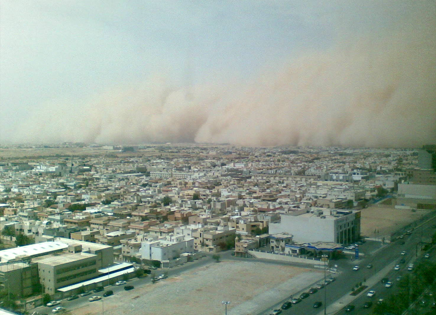 A heavy sandstorm rolled in to the centre of Riyadh just after midday on 10 March. The dramatic sight meant that everyone stopped work for about 15 minutes as we watched the looming cloud.